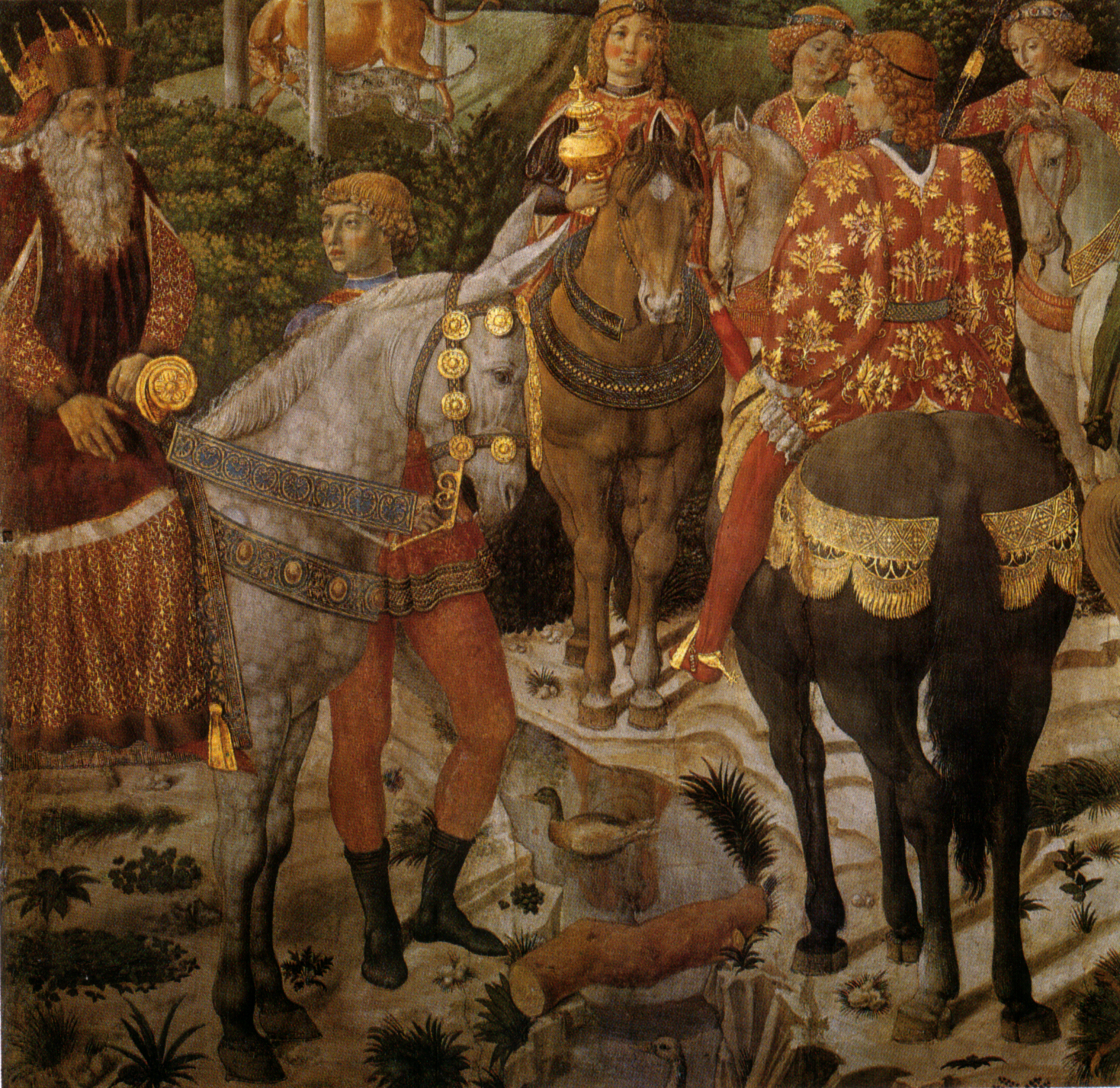 Joseph, Patriarch of Constantinople. Detail from the fresco by Benozzo Gozzoli, in the "Cappella dei Magi", at Palazzo Medici Riccardi in Florence, Italy.